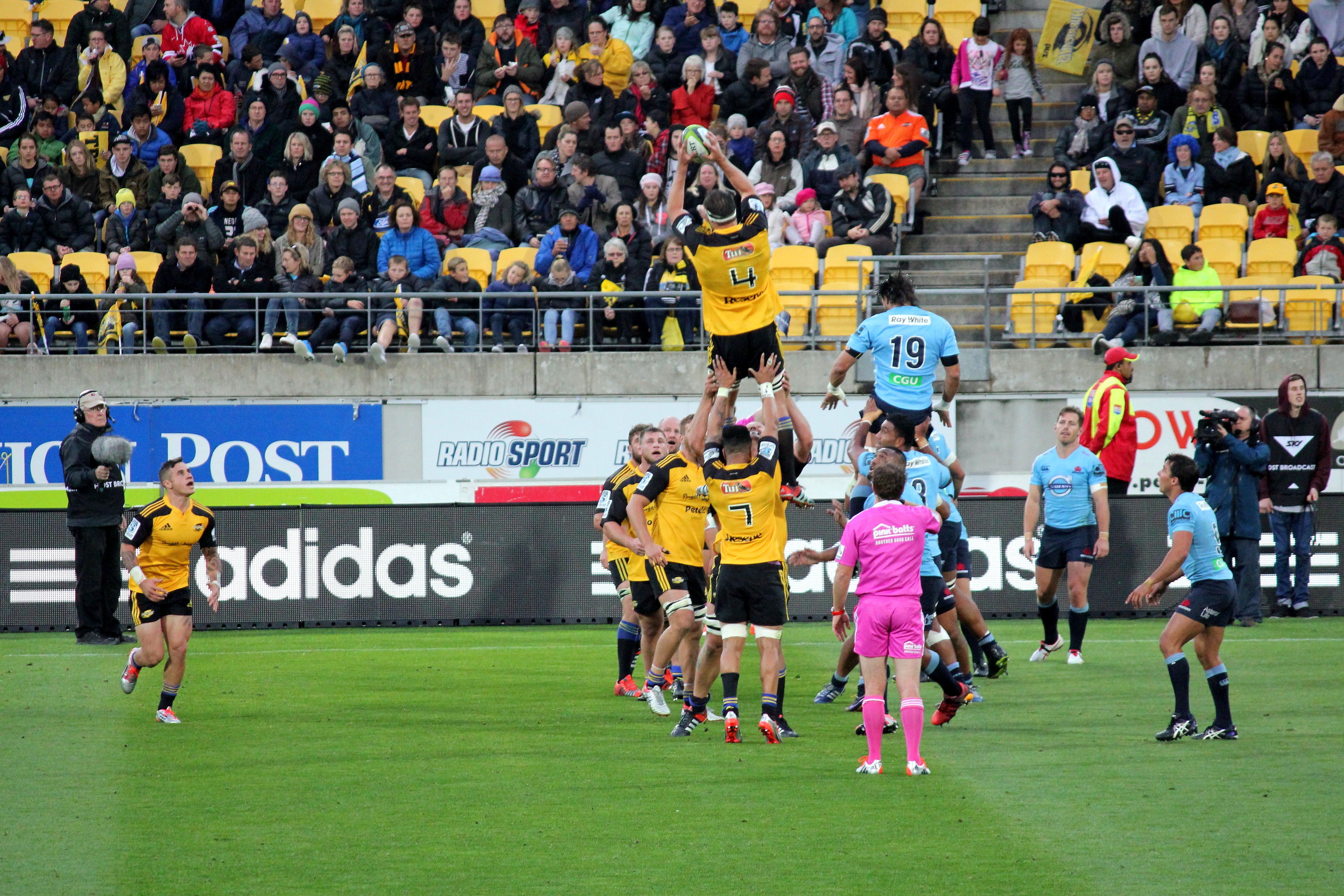 2015 Super Rugby — 18 April 2015, Westpac Stadium, Wellington. Match between: Hurricanes — Waratahs